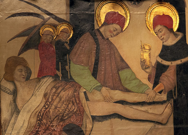 Cathedral of Barcelona. Altarpiece of Saint Cosmo and Saint Damian chapel.